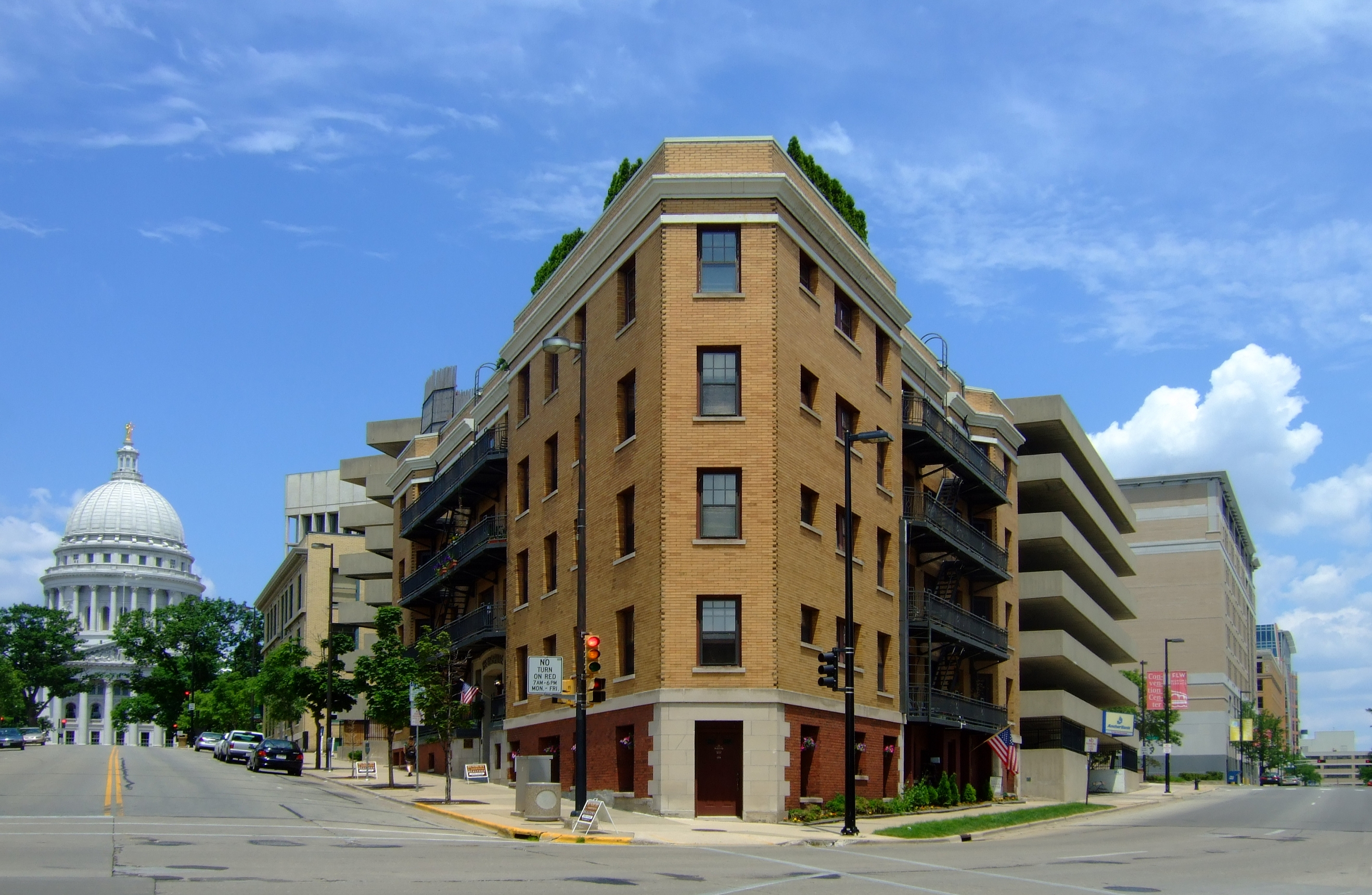 The Baskerville Apartment Building (1913-14) is one of Madison's finest remaining early apartment houses, built in an era of population explosion caused by enlargement of the University of Wisconsin, state government, and private industry. Downtown densities increased dramatically during this period before popular use of the automobile made the suburbs accessible to the lower and middle classes. One of the best works of local architect Robert L. Wright, known also for his design of the City Market, the Baskerville was designed in the early 20th-century apartment house style. It was added to the National Register of Historic Places in 1988.